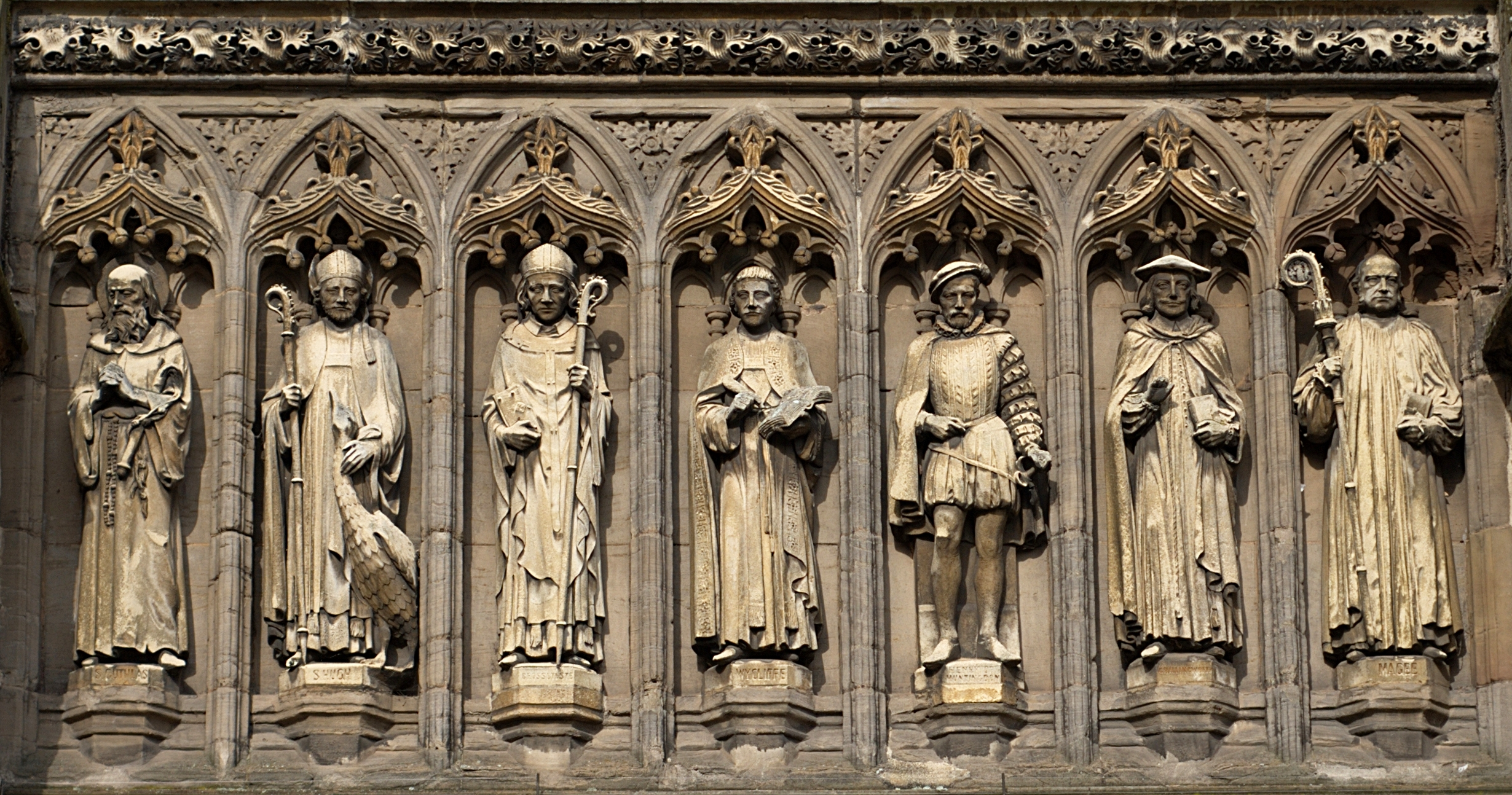 Detail from the Vaughan Porch [1] of Leicester Cathedral. The seven statues are (left to right) of St Guthlac, St Hugh of Lincoln, Robert Grosseteste, John Wycliffe, Henry Hastings, William Chillingworth and William Connor Magee.